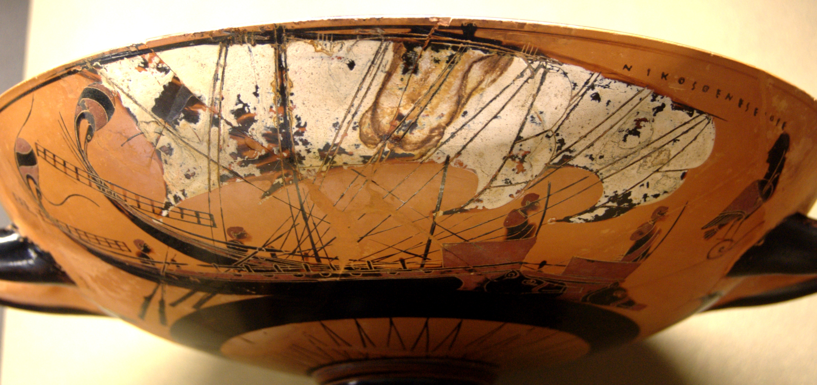 Boats. Side A from an Attic black-figured cup, ca. 520–510 BC. From Vulci.